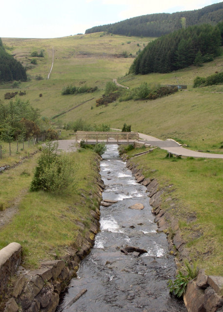 The Afon Garw just to the north of Blaengarw The Afon Garw already seems quite a substantial river at this point, despite its source (and those of upstream tributaries) being no more than about 2km from here. The photograph was taken from a road bridge that crosses the river.